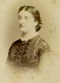 Emma Louise von Rothschild (1844–1935), married to Nathan Mayer Rothschild (1840–1915) in 1867. Her father Mayer Carl von Rothschild